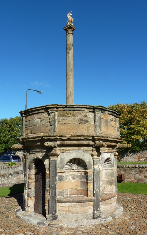 Preston Market Cross, Preston, East Lothian, Scotland.